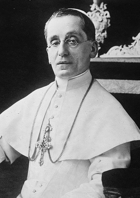 Portrait of Pope Benedict XV.